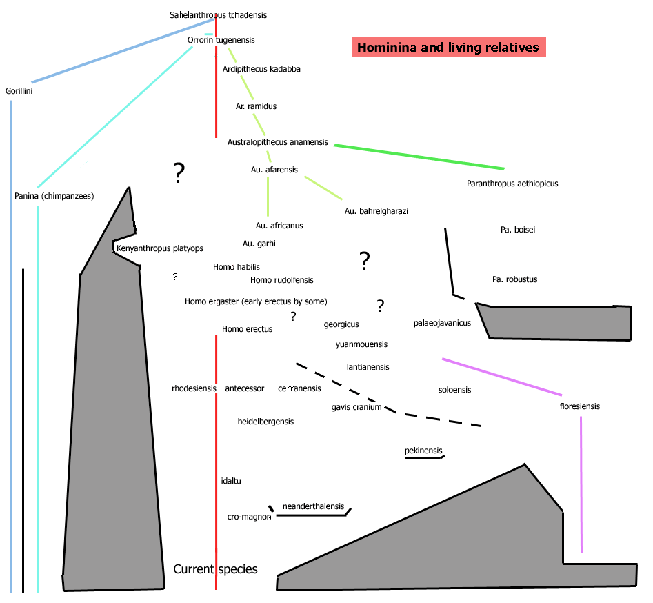 A chart depicting various Hominina-species and their approximate relations (the closer the nearer), according to wikipedia articles. Since this is a hotly debated subject, tried to make it neutral by leaving most connecting ancestral lines out. There is no exact timeline on the chart.